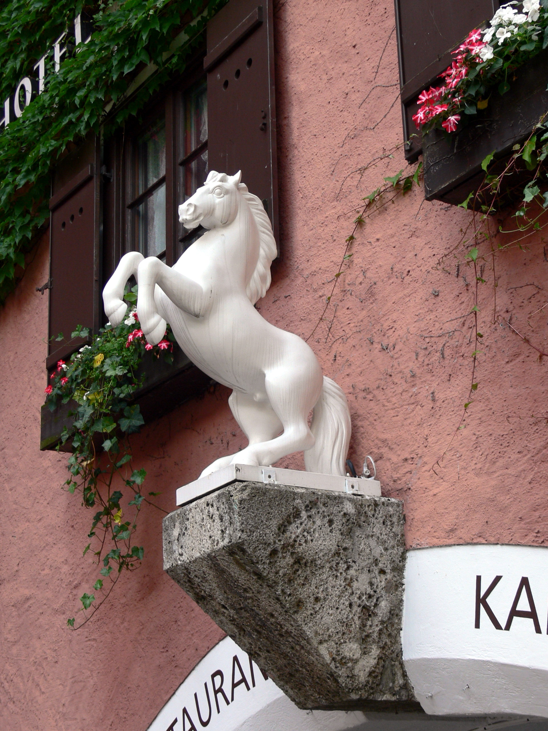 Sankt Wolfgang im Salzkammergut ( Upper Austria ). Hotel "Weißes Rössl" - the "little white horse" as sign of the house.